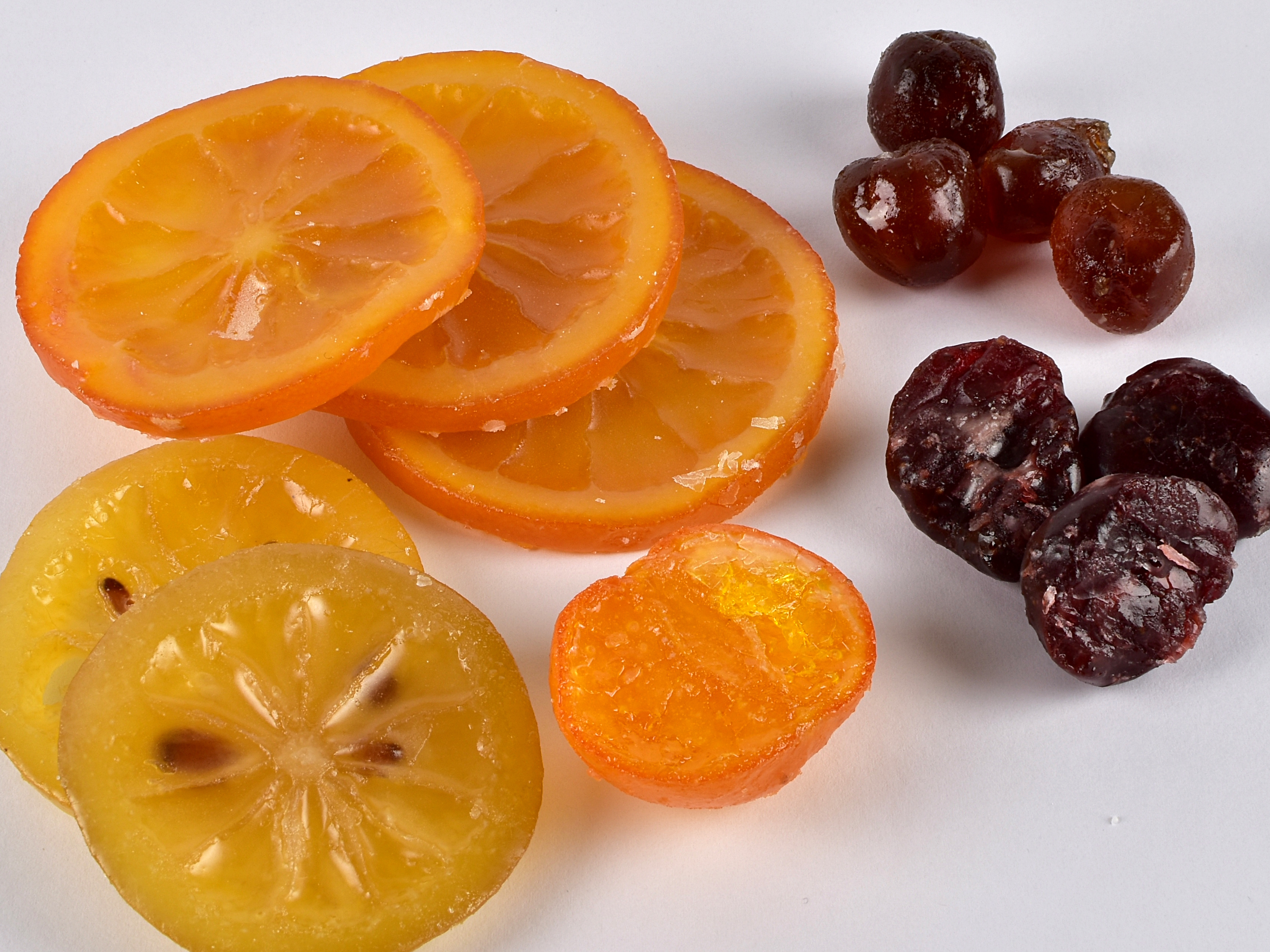 As selection of glazed candied fruit. From the upper left, clock-wise: Orange, cherry, strawberry, half a mandarin, lemon.